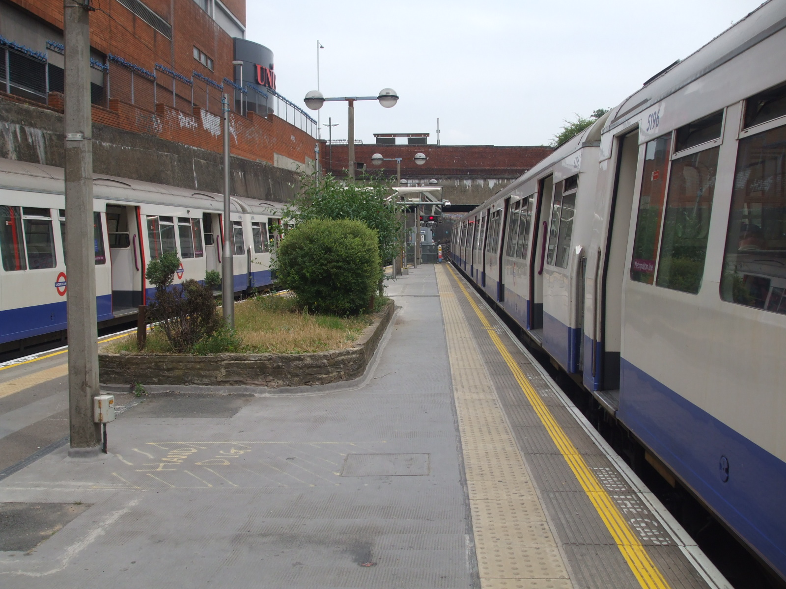 Eastern end of Uxbridge tube station platforms 4 (left) and 3 (right, serving the centre track) looking east